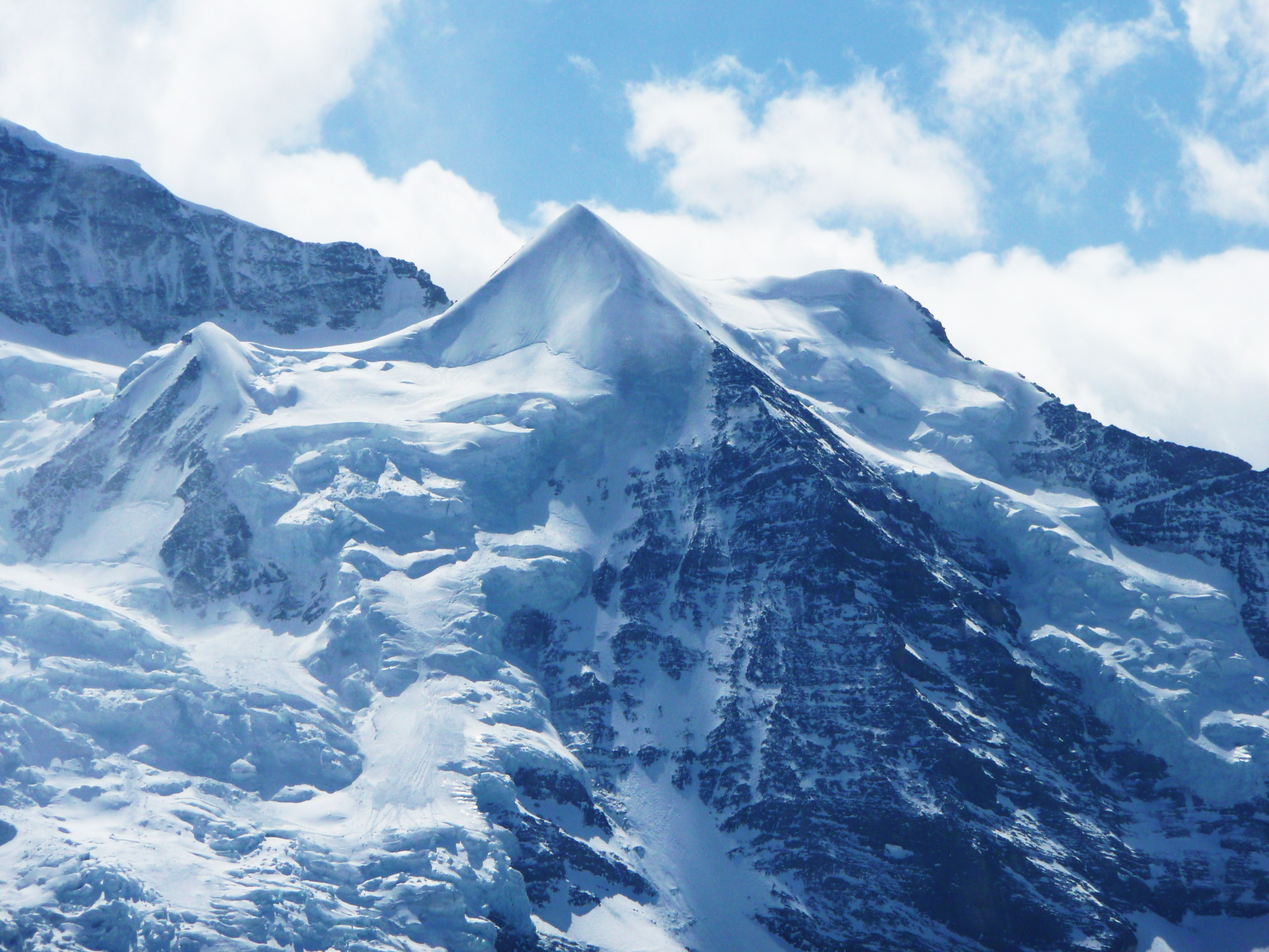 Silberhorn, Lauterbrunnen Valley, Bernese Oberland, Switzerland